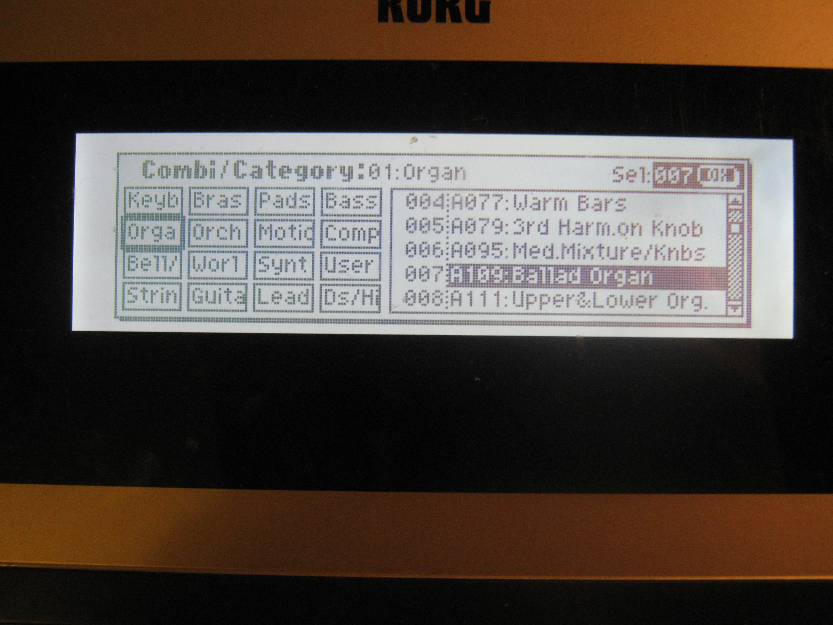 Korg X50 - display, COMBI - category